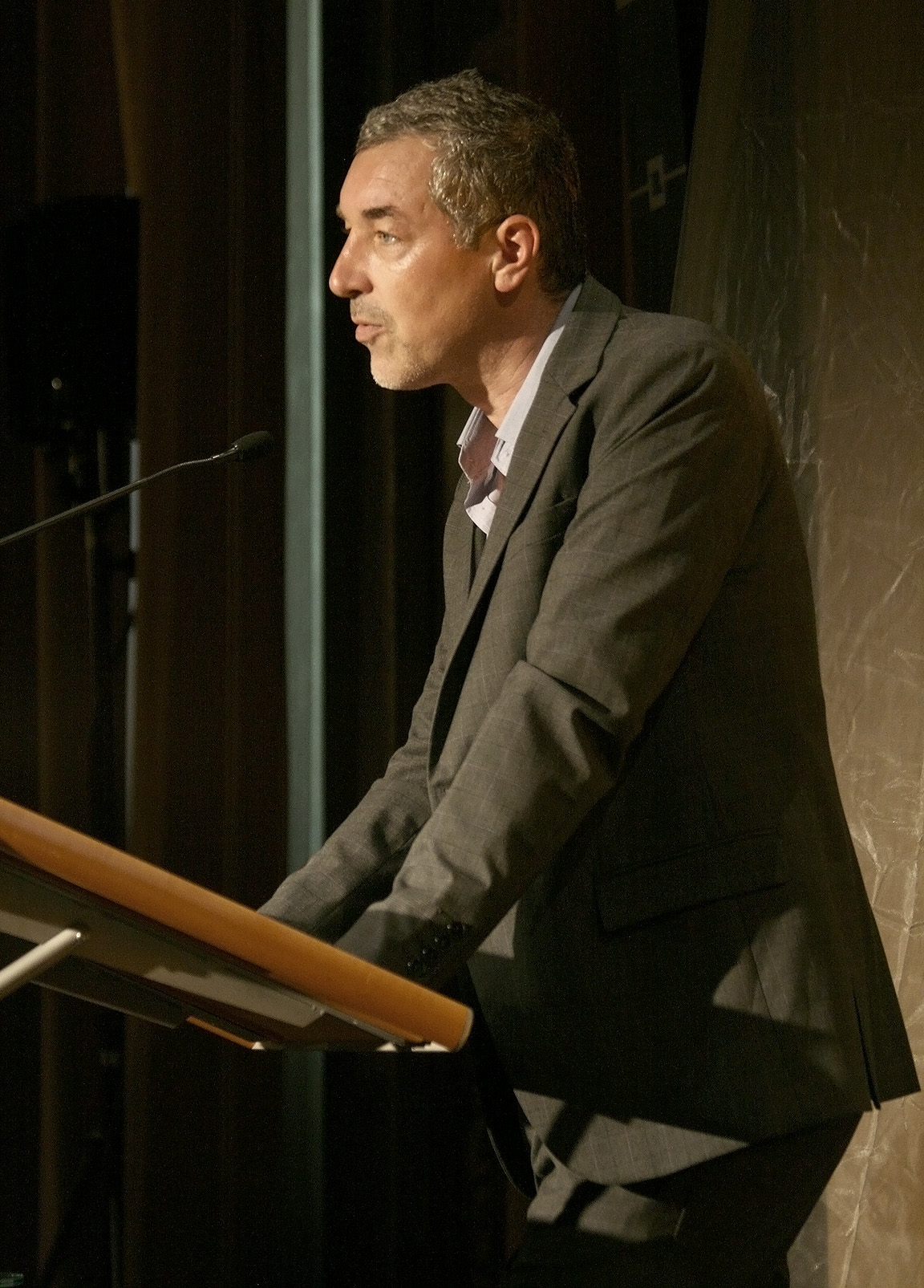 Ed Moschitz, 43. Fernsehpreis der Österreichischen Erwachsenenbildung at the Budget Hall of the Austrian Parliament Building in Vienna.